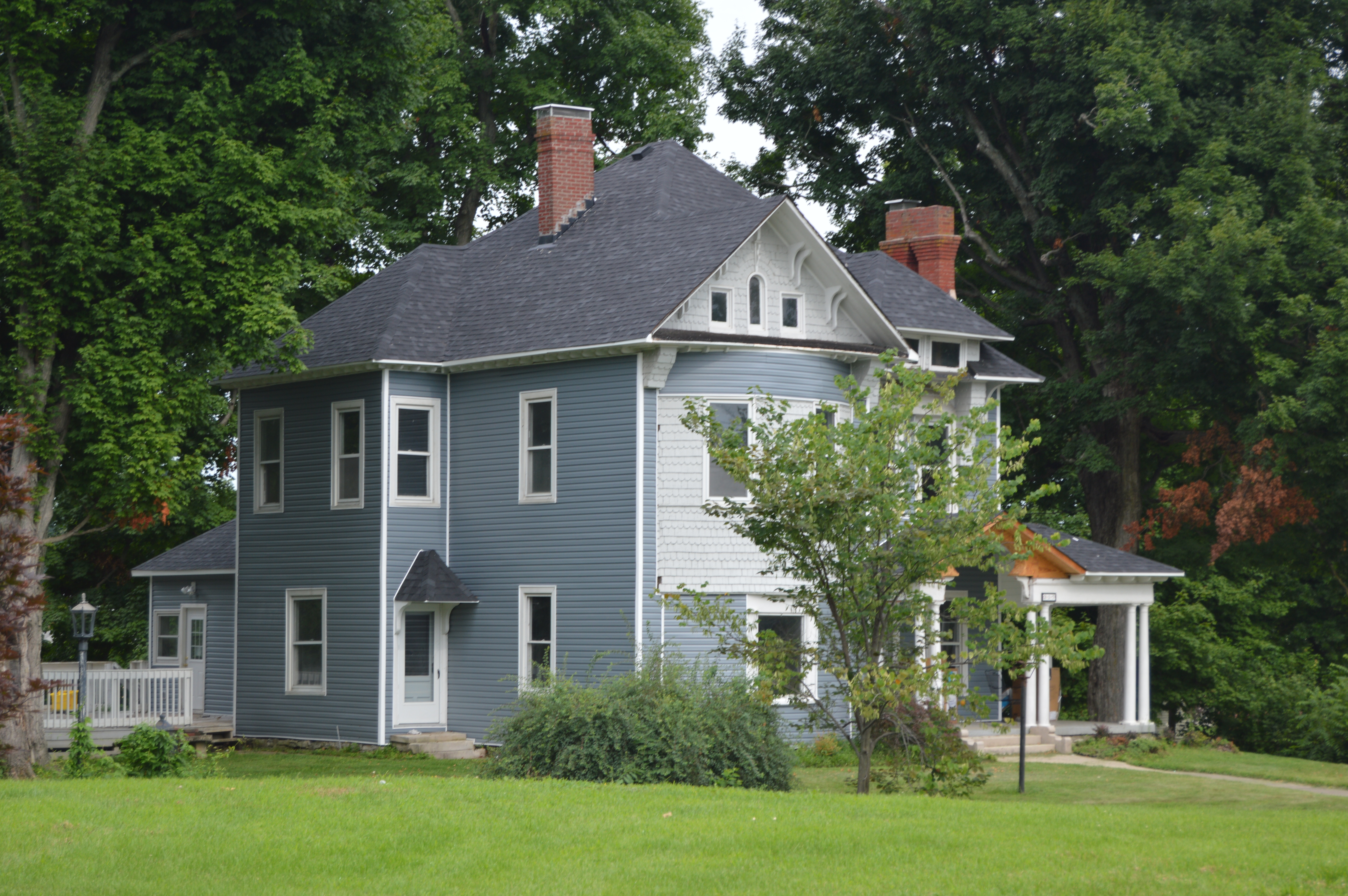 Front and southern side of the Denny Place, located at 217 Lexington Street (U.S. Route 27) in Lancaster, Kentucky, United States. Built in 1899, it is listed on the National Register of Historic Places.